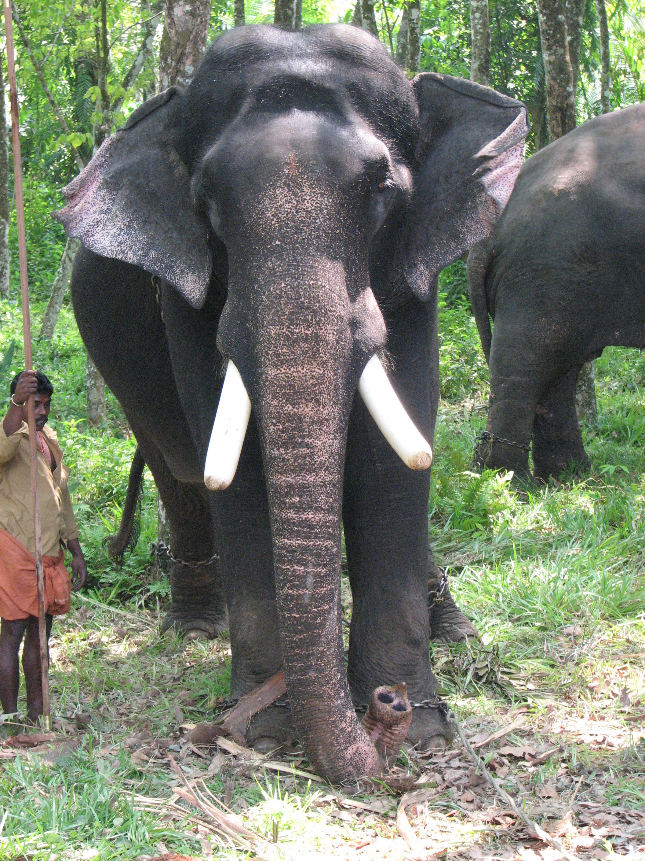 Elephant named "Pambadi Rajan" from Kerala. Pampadi Rajan is the tallest elephant of Kerala origin.